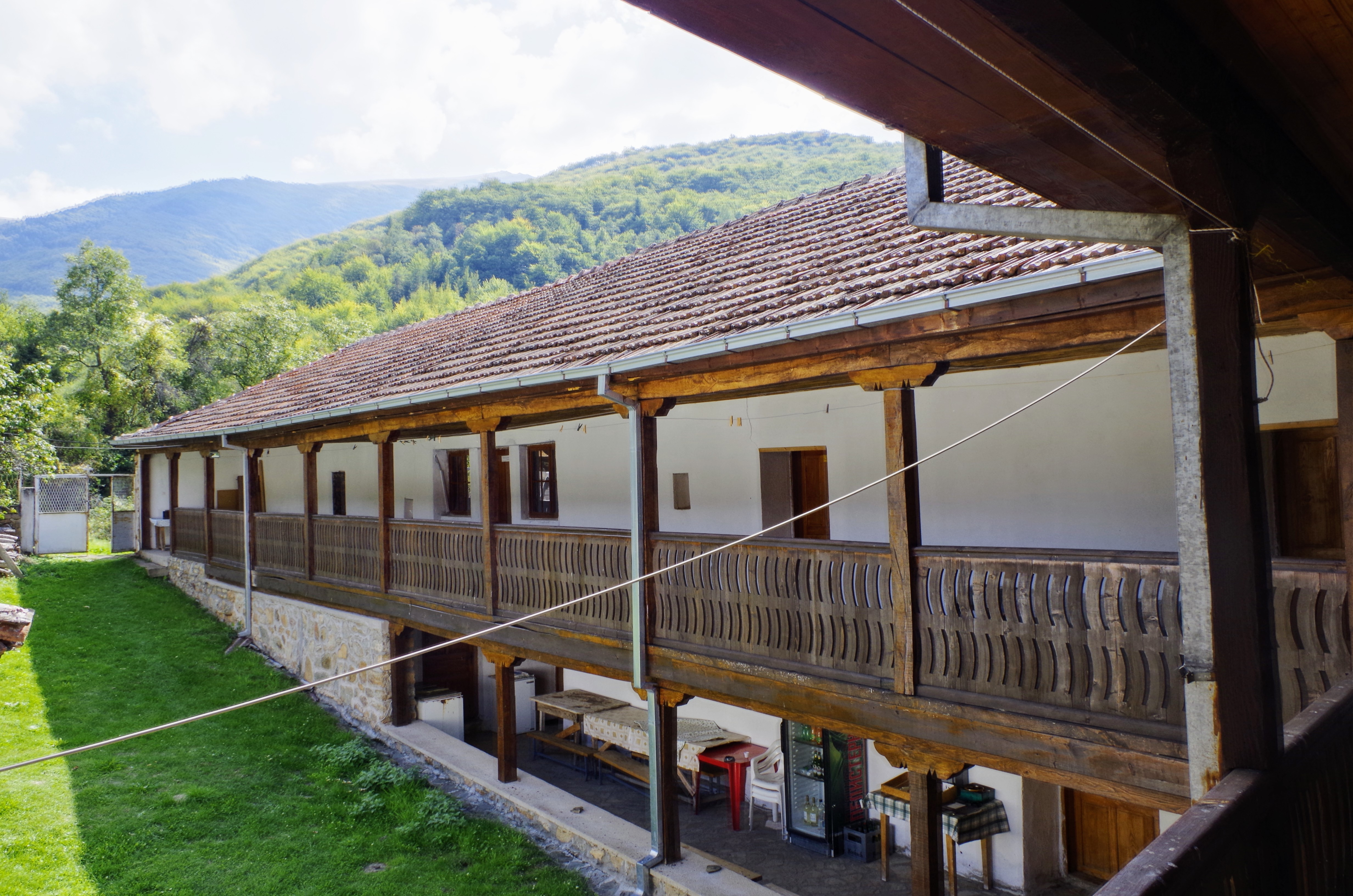 View of the hospices in the Brajčino Monastery